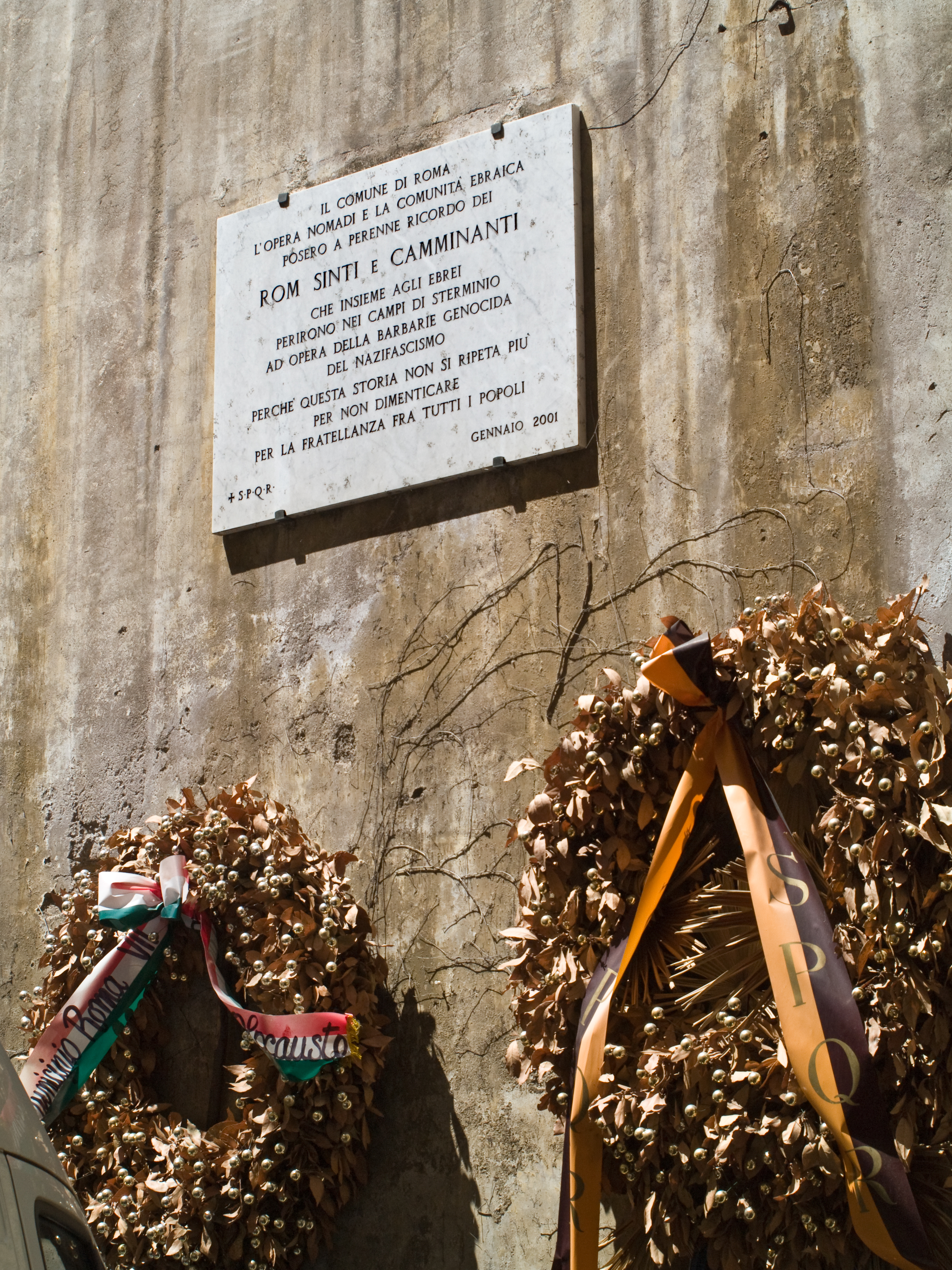 Plaque in Rome (Italy) in memory of Romani and Sinti people died in extermination camps in the genocide perpetrated by the Nazis (“Porajmos”) during the Holocaust throughout the time of World War II.